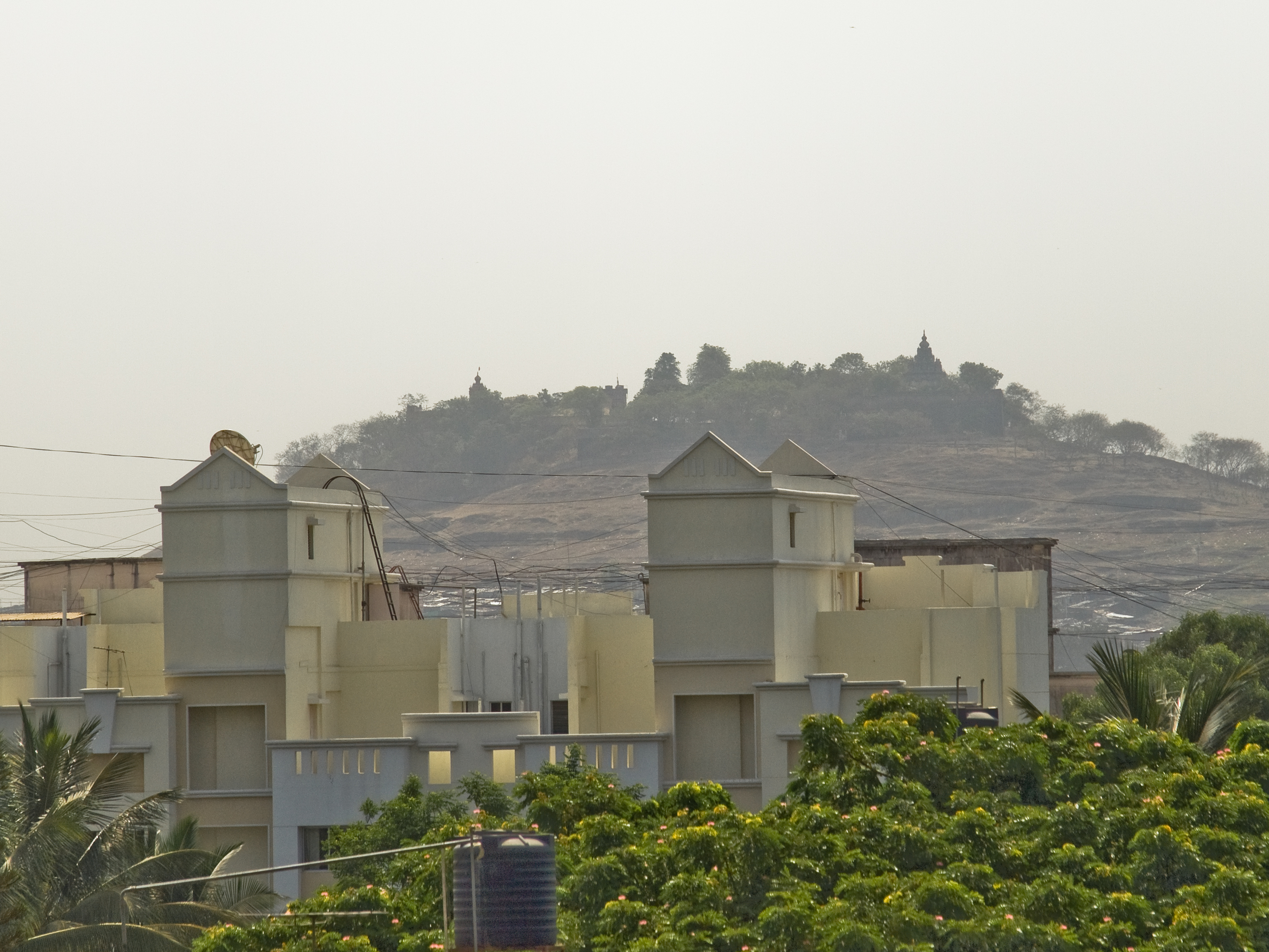 Parvati Hill in Pune, Maharashtra, India